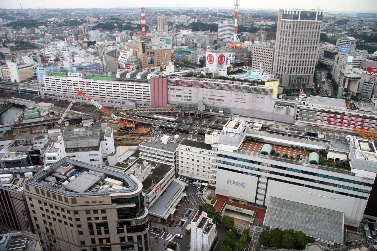 Yokohama Station from above